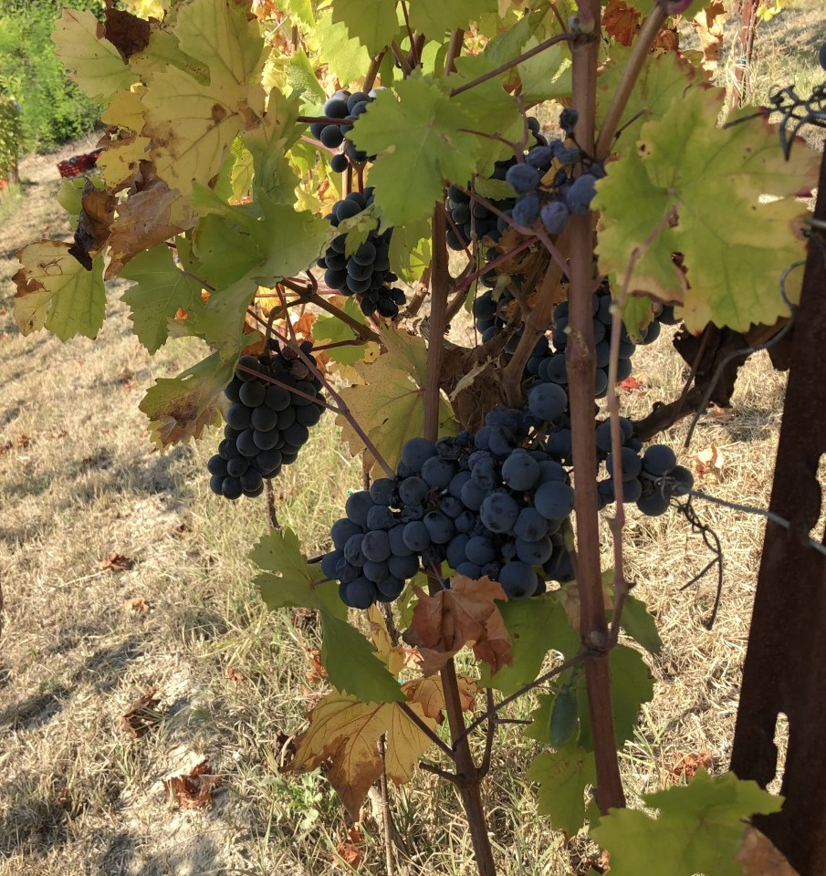 Gamba di pernice vines and grapes at harvest time. Bionzo, Piemonte 2019